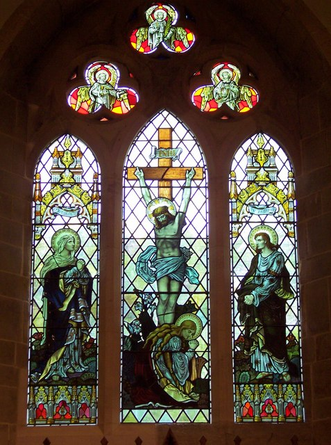 Stained Glass Window, St Hilda's Church, Ampleforth (the date given here was 1390. The church may be 1390, but the stained glass window is 19th or early 20th century. It cannot possibly be medieval, because of the style.)